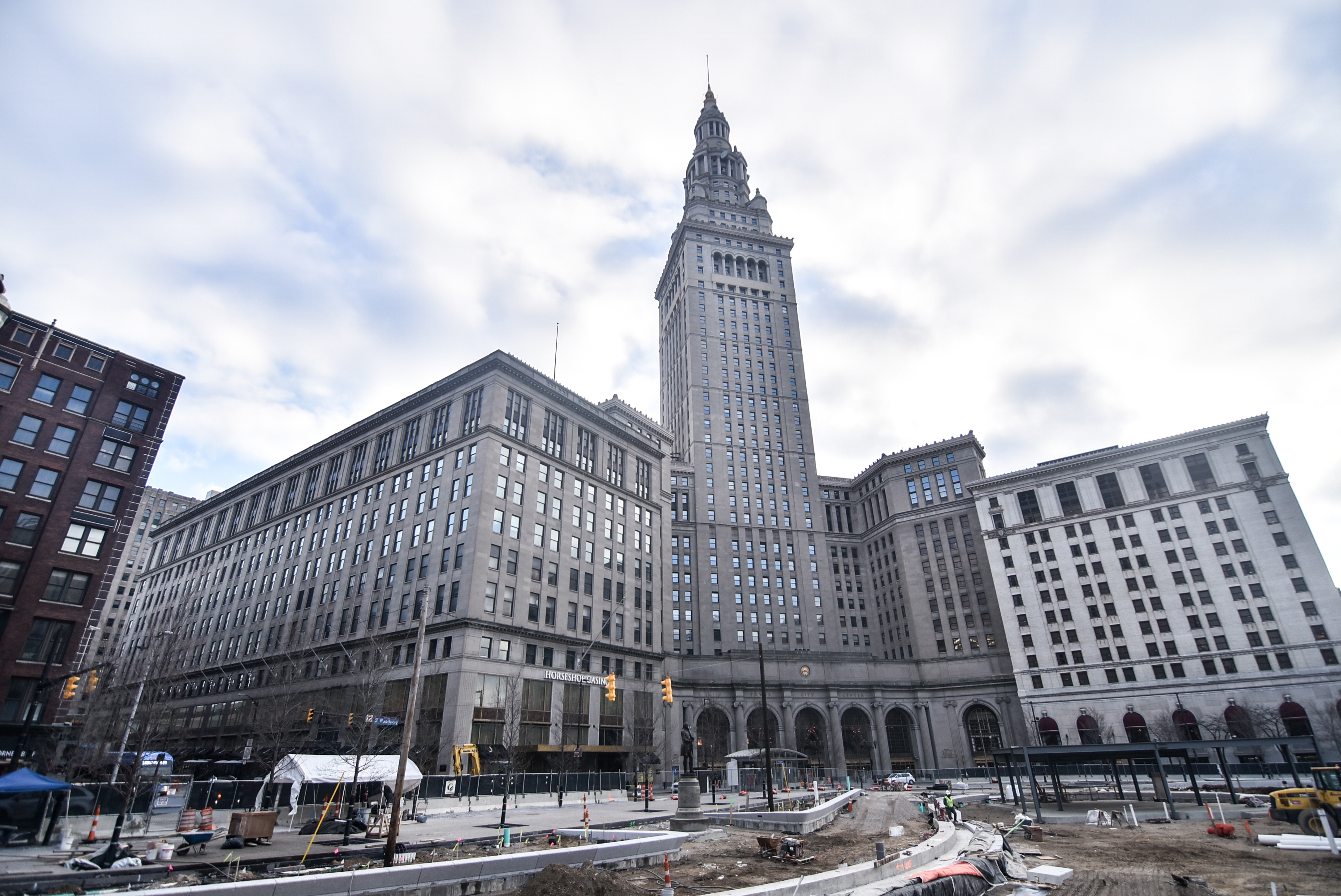 Public Square Construction